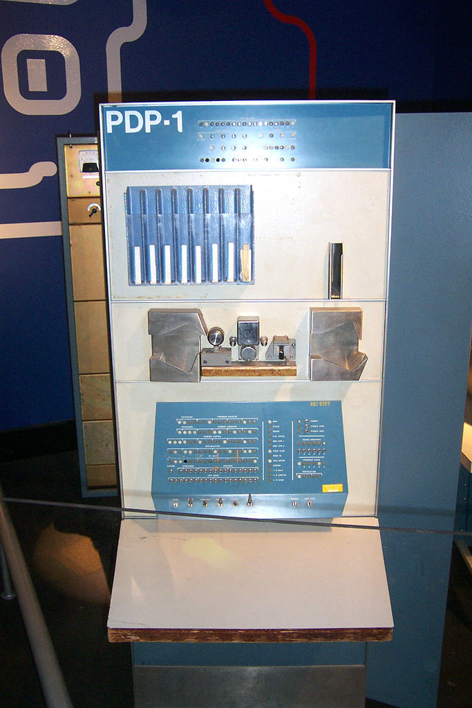 Components from the DEC PDP-1 which (in a heavily customized configuration at MIT) ran Spacewar, a videogame that pre-dates Pong by 11 years.